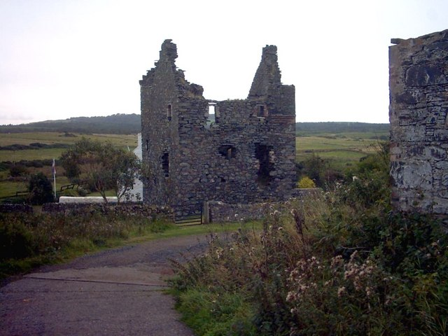 Galdenoch Castle (remains)